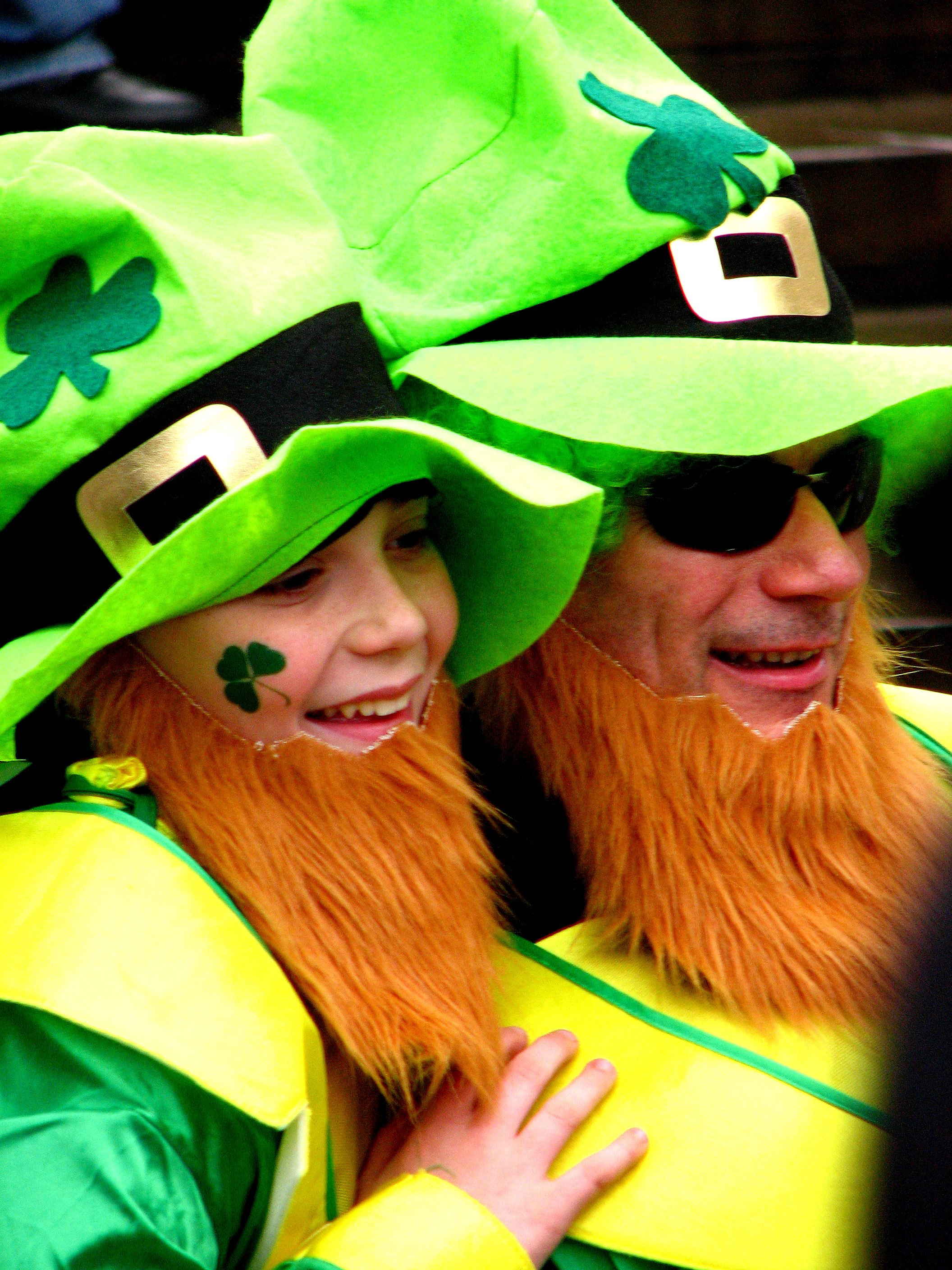 Taken at the St Patrick's Day celebrations at London's Trafalgar Square.